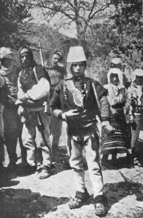 Boy of Kastrati